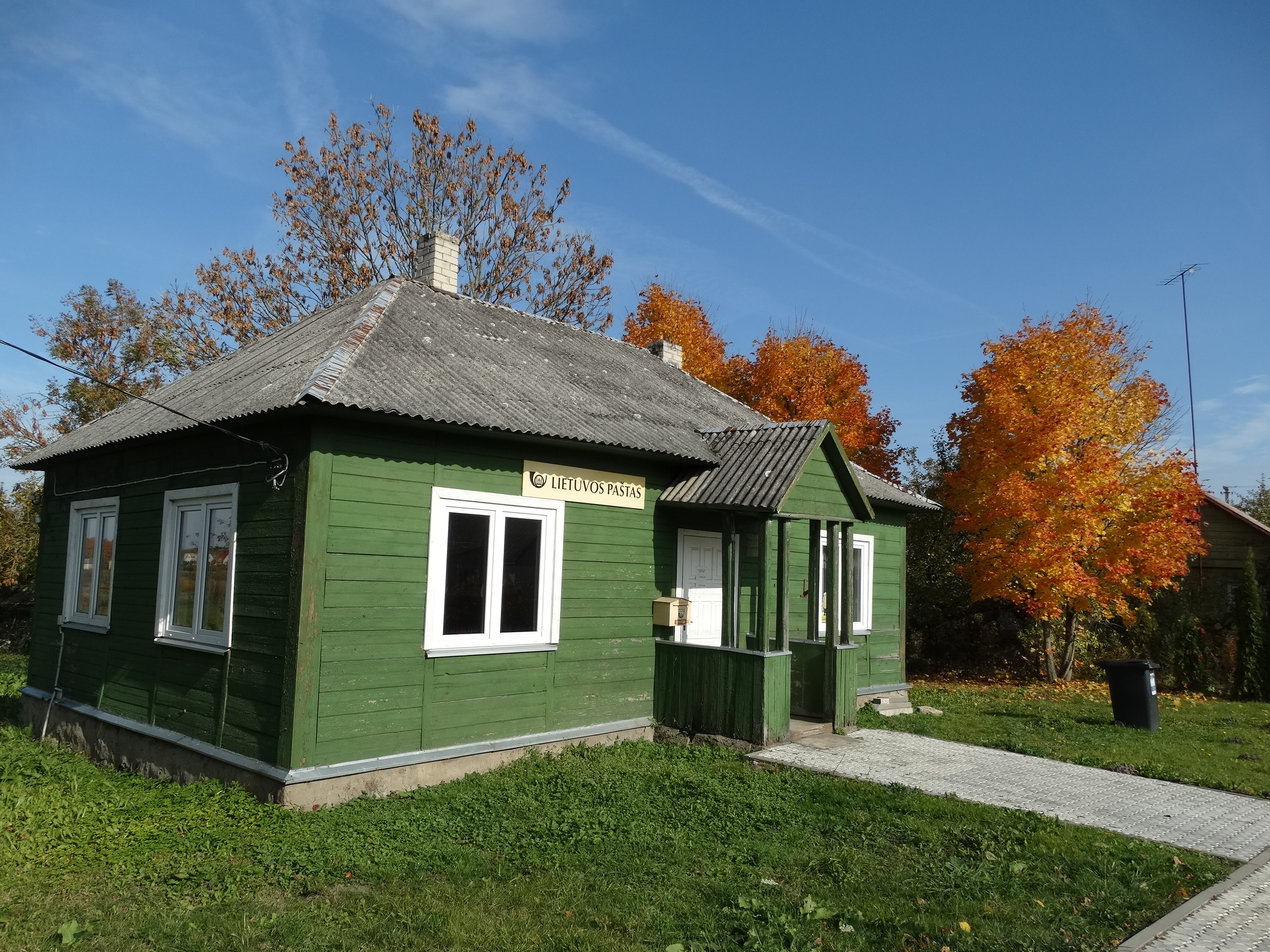 Post office, Šventežeris, Lazdijai district, Lithuania